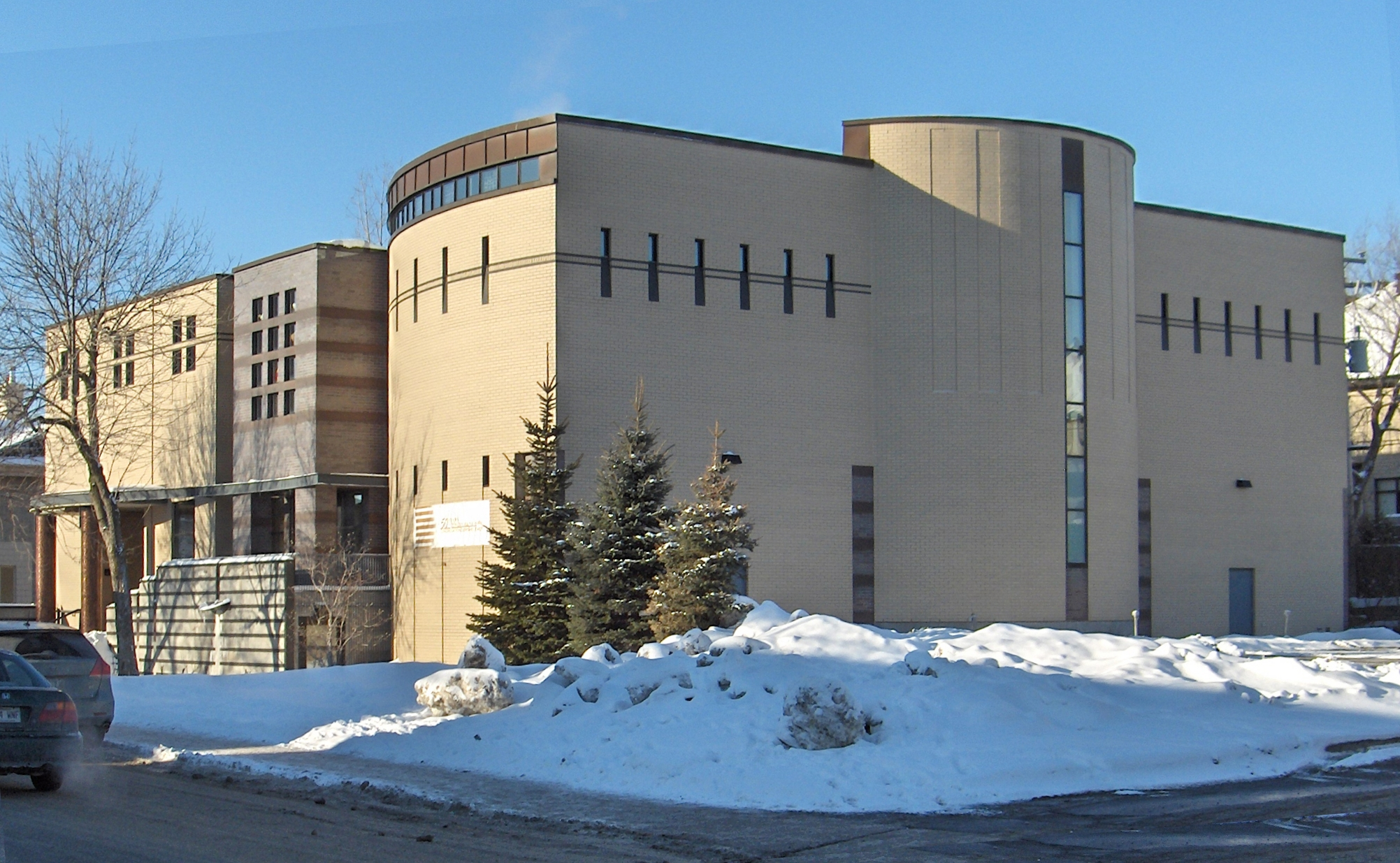 Exterior of the Reconstructionist Synagogue of Montreal, (congregation Dorshei Emet) Montreal, Canada.